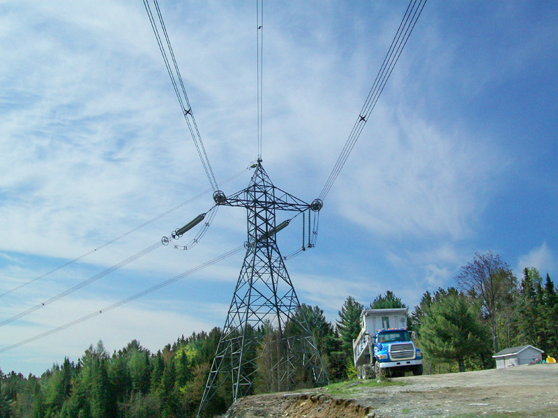 Dead-end pylon of the Quebec–New England HVDC line (450 kV, return in top position) at Ascot Corner, Quebec, Canada